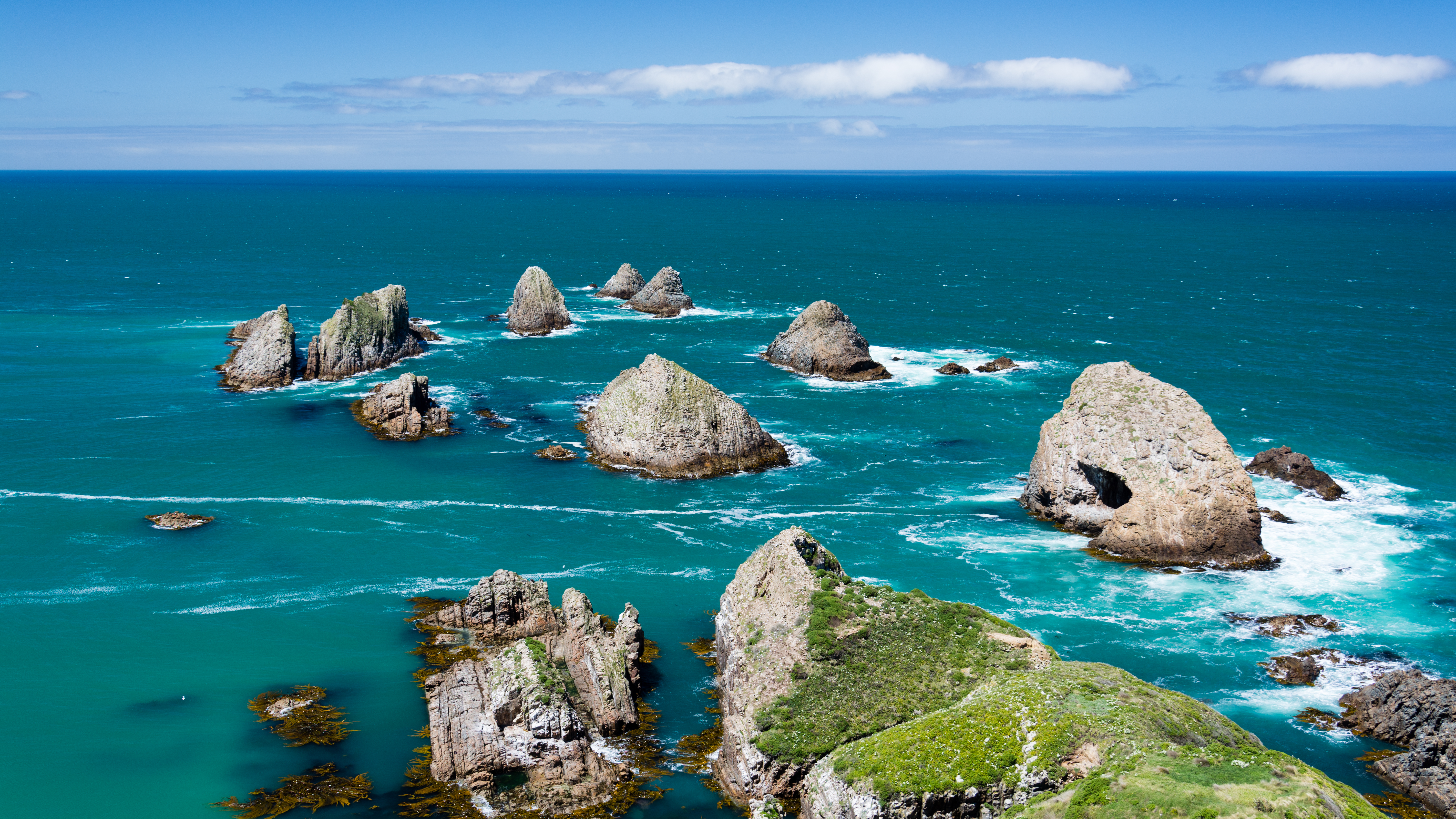 Nuggets islands